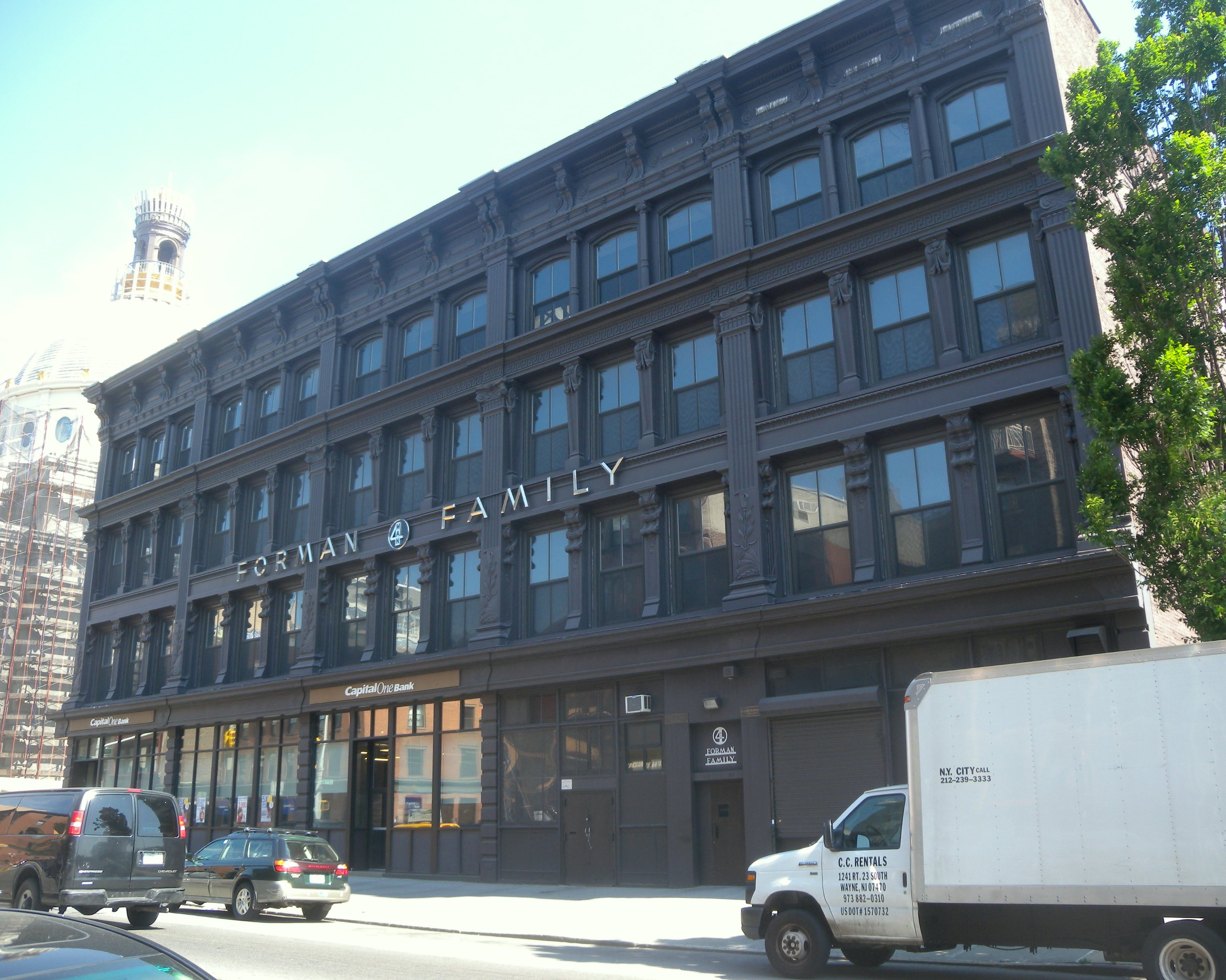 Looking northwest across Broadway at cast iron shoe factory on a sunny morning. Brownstoner Building of the Day Must get there later in the day.